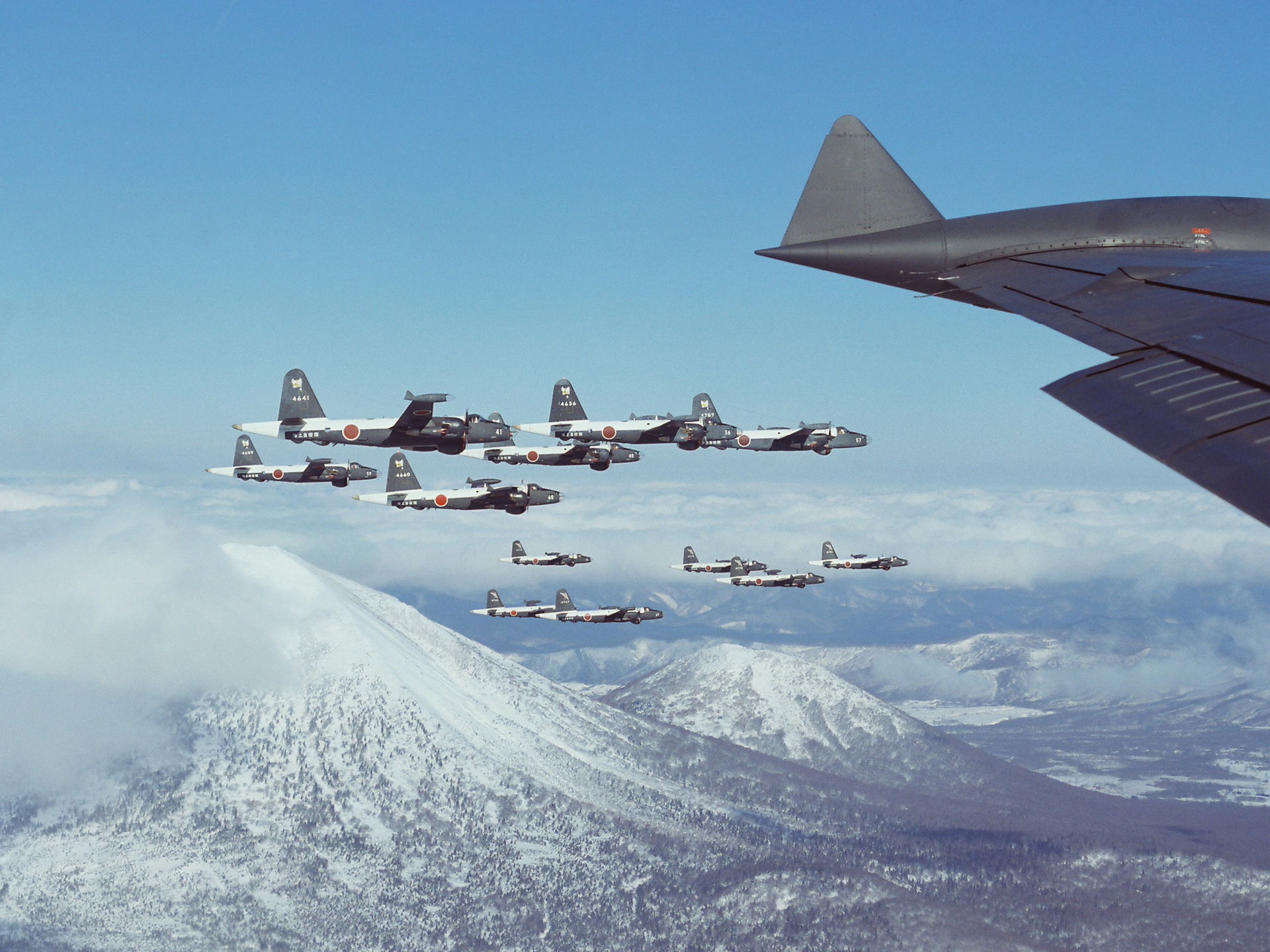 JMSDF FleetAirWing2 P-2V and P-2J